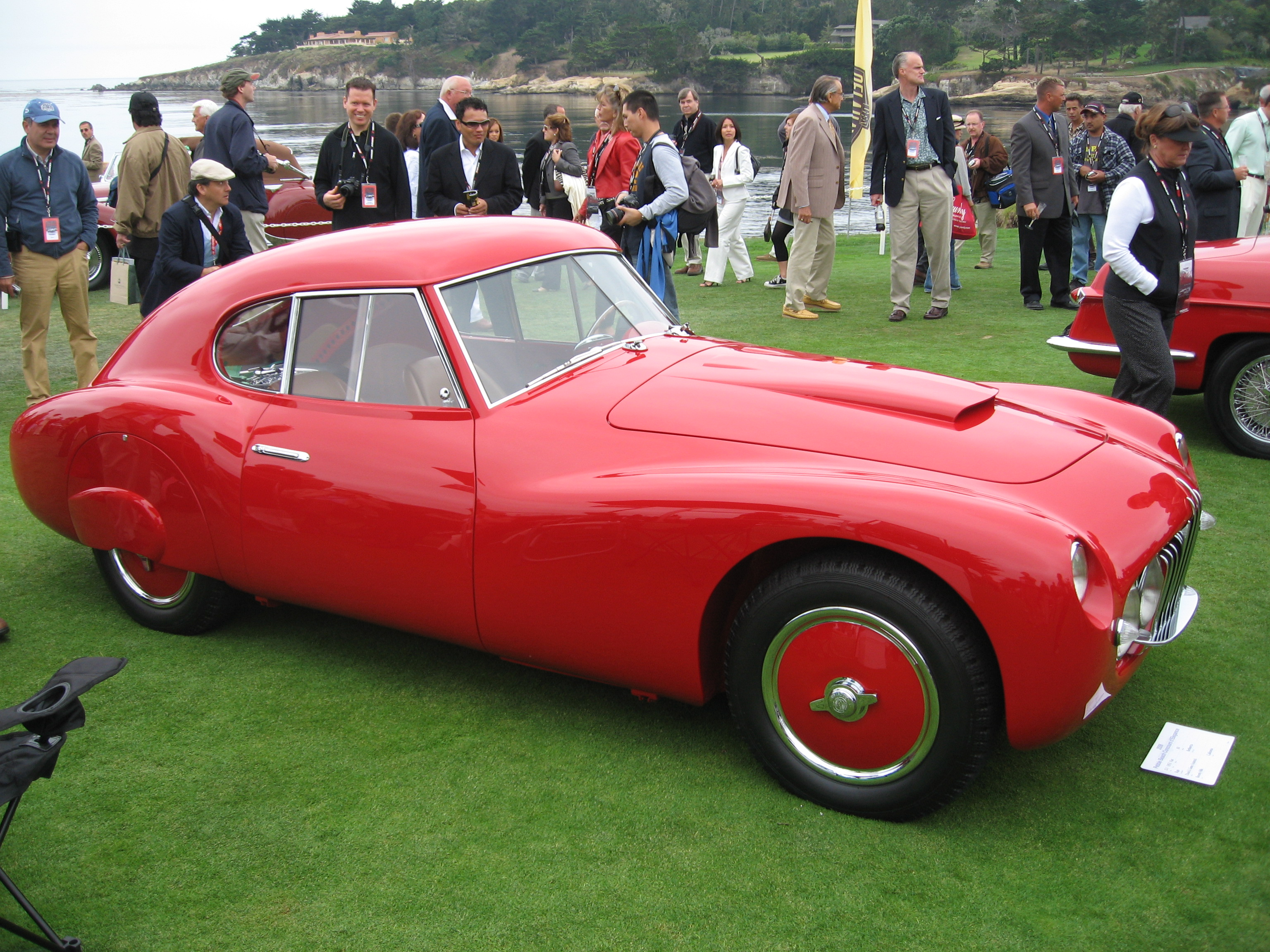 1953 Fiat 8V on display at the 2006 Pebble Beach Concours d'Elegance. This is the first style of Fiat bodywork for the 8V, penned by chief designer Luigi Rapi.